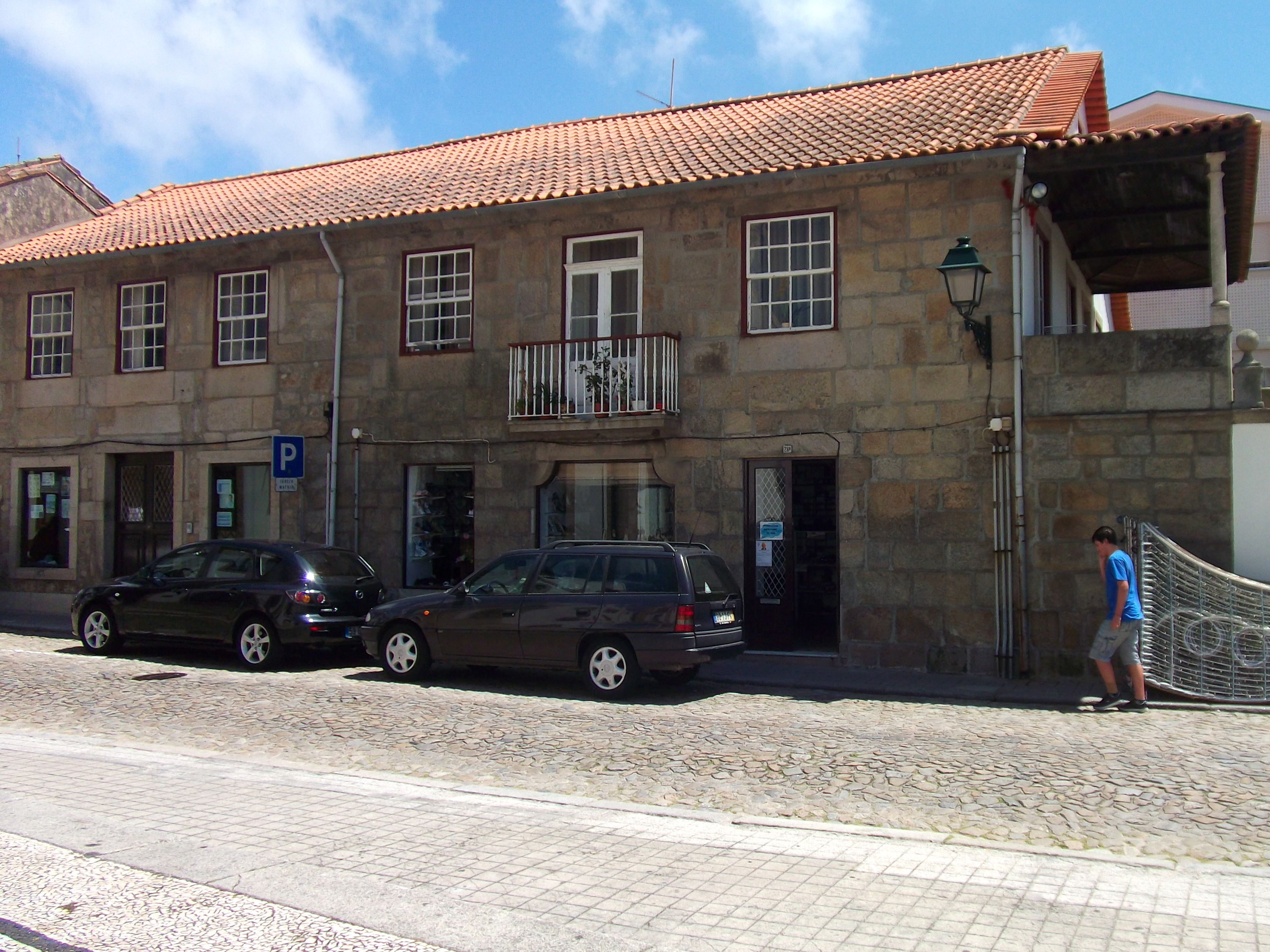 House of Antonio Cardia, Póvoa de Varzim